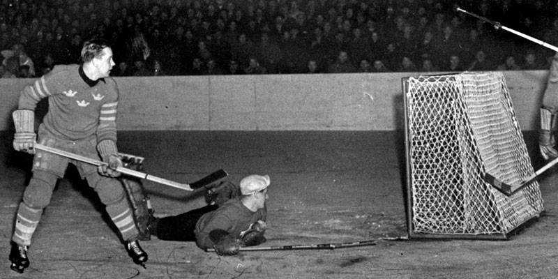 Holger Nurmela scores his third goal for Sweden against Switzerland during the 1949 World Ice Hockey Championship in Stockholm, Sweden